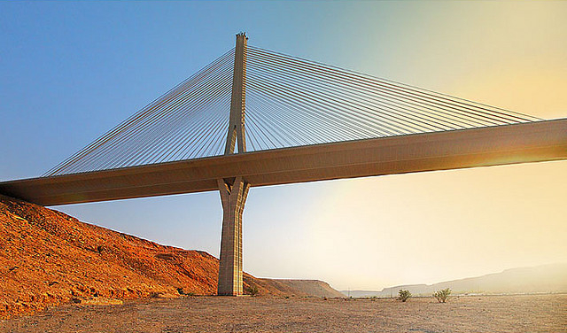 East pylon of the Wadi Leban Bridge. A cable-stayed bridge across a wadi in Riyadh, Saudi Arabia. Designed by Seshadri Srinivasan. License on Flickr (2011-02-12): CC-BY-2.0 Flickr tags: CANON EOS 5D Mark II, WADI LABAN, WADI LABAN BRIDGE, PYLON, RIYADH, SAUDI ARABIA, EF 17-40 F/4